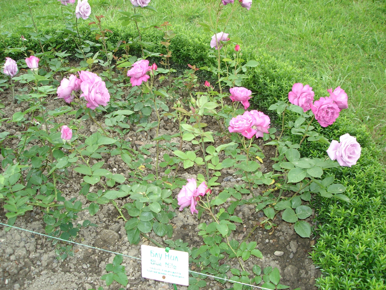 Rose "Blue Nile"